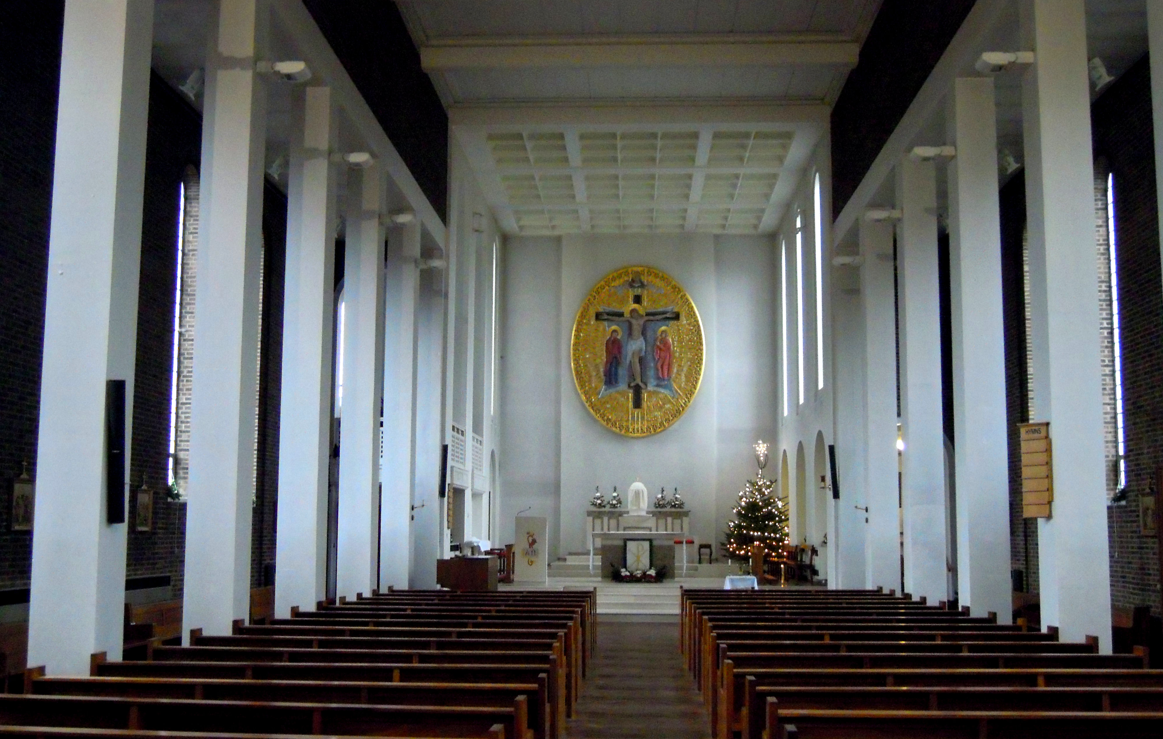 Looking East in the Church of St Hugh of Lincoln in Letchworth in Hertfordshire